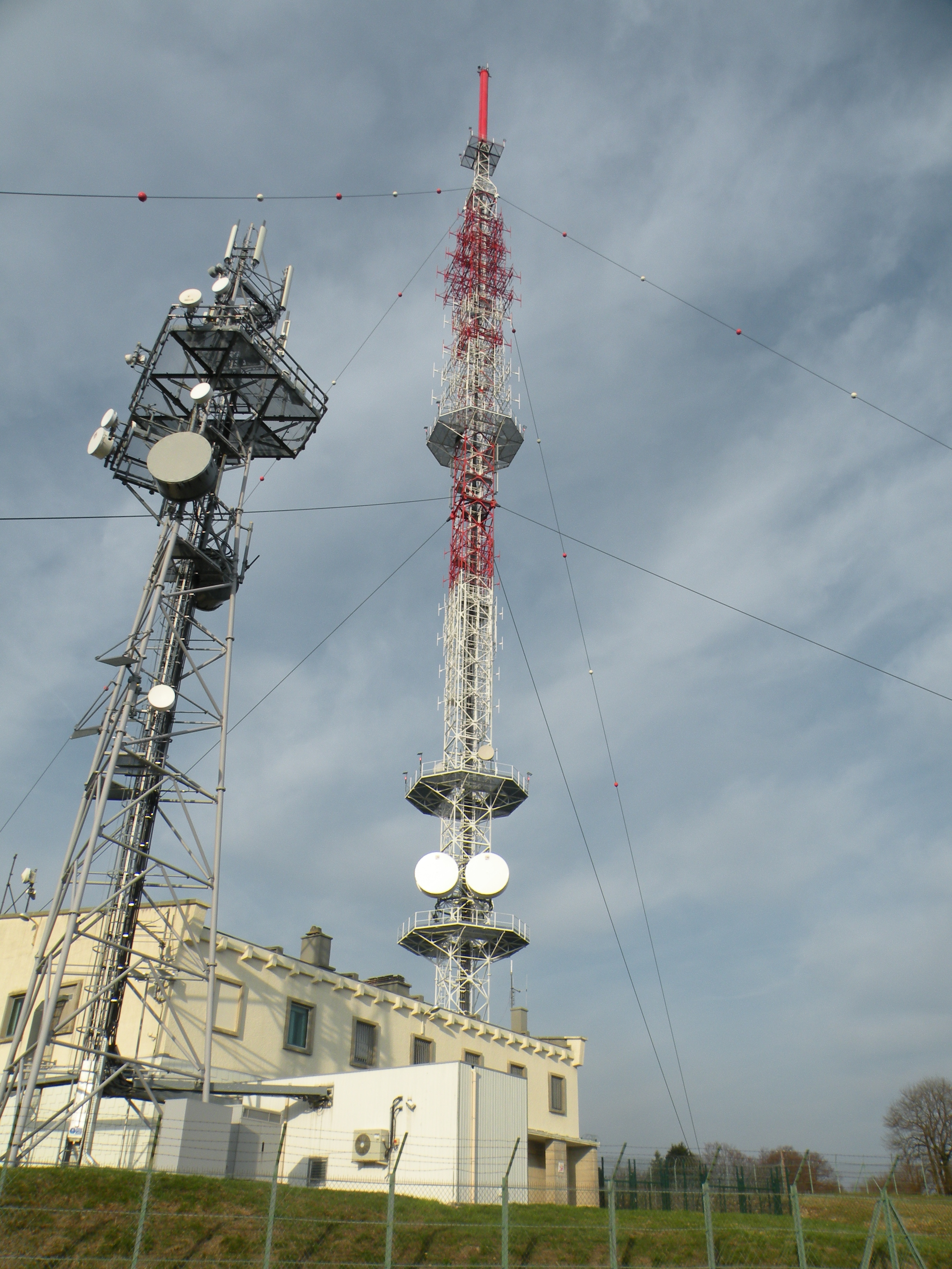 Transmitter Vellerot-lès-Belvoir